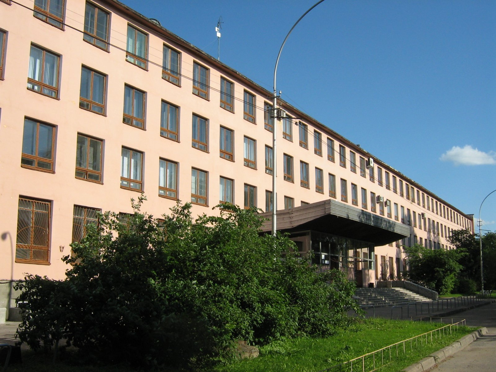 Vologda State Technical University (VSTU)